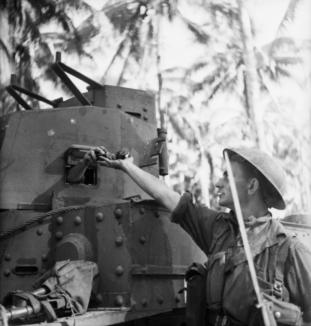 1942-12-28. PAPUA. AN AUSTRALIAN INFANTRYMAN RECEIVES GRENADES FROM A CREW MEMBER OF AN AUSTRALIAN TANK DURING THE ATTACK ON BUNA. TANKS CARRIED LARGE QUANTITIES OF GRENADES WHICH WERE SUPPLIED TO THE INFANTRY AS REQUIRED. THIS PHOTOGRAPH WAS TAKEN DURING THE ACTUAL FIGHTING. (NEGATIVE BY G. SILK.)